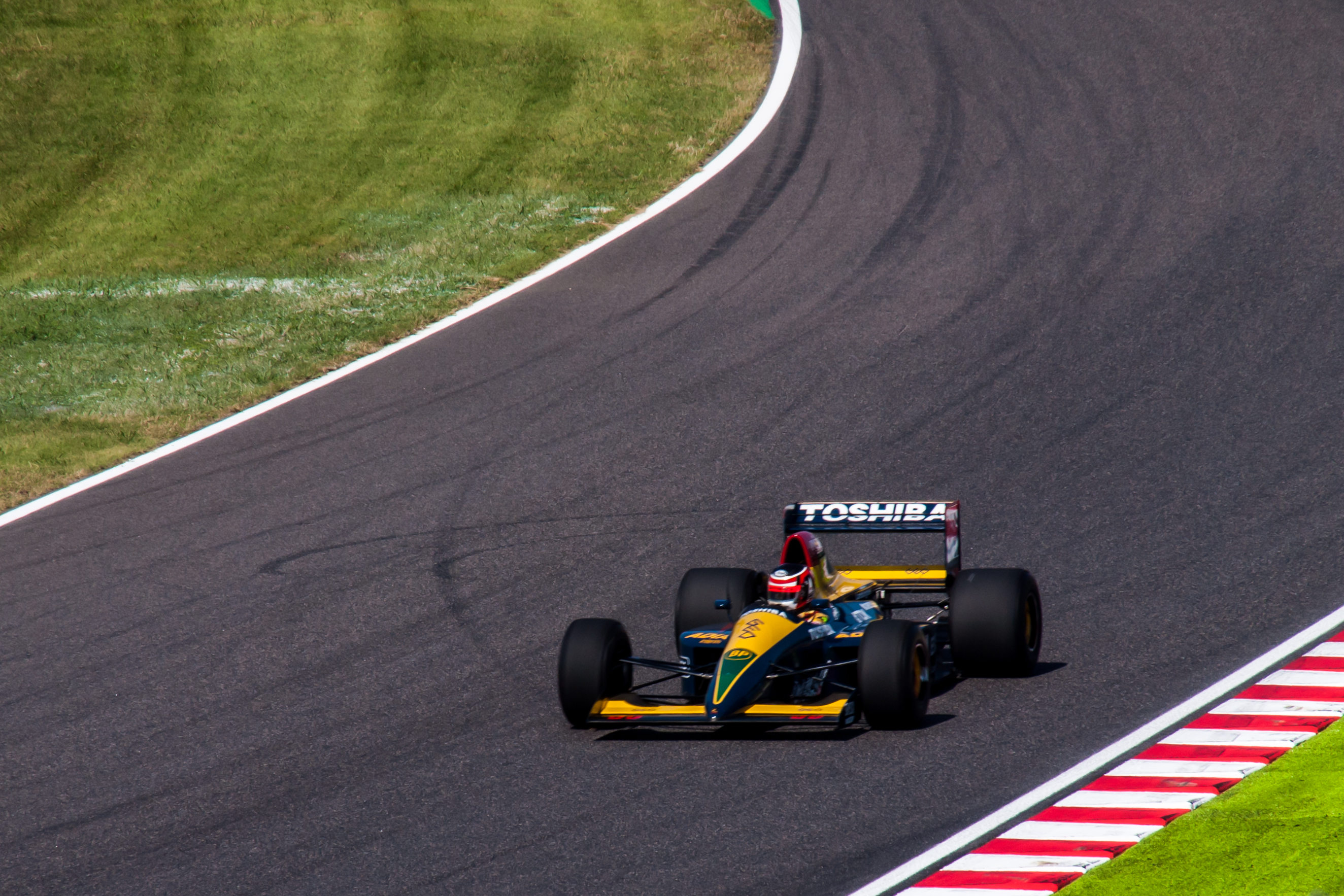 La Lola LC90 en exhibition au Grand Prix du Japon 2012